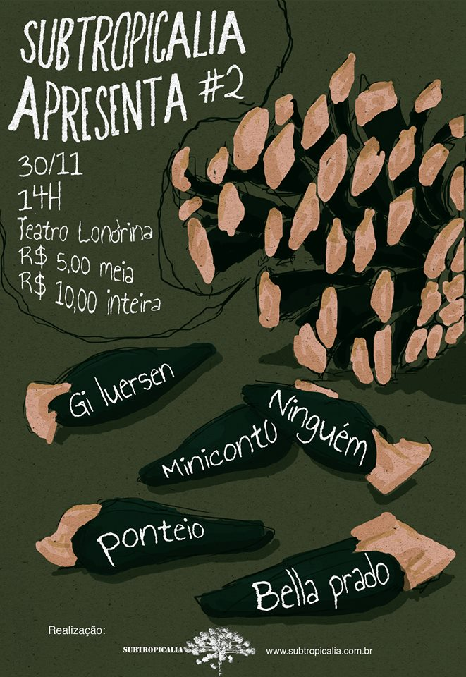 idem ao titulo